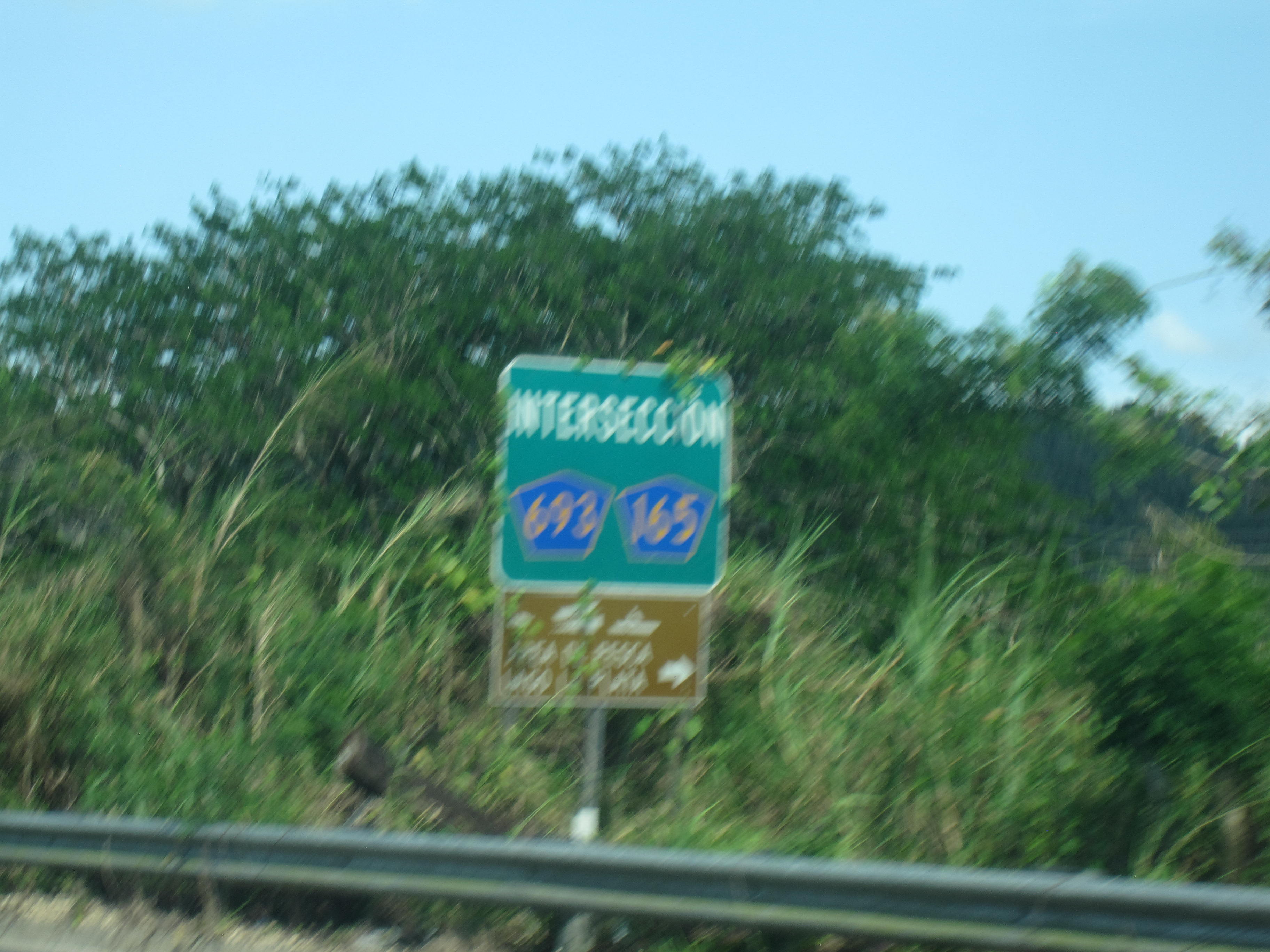 PR-693 and PR-165 in Dorado, Puerto Rico